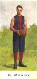 Photo of George Moodie taken in 1904